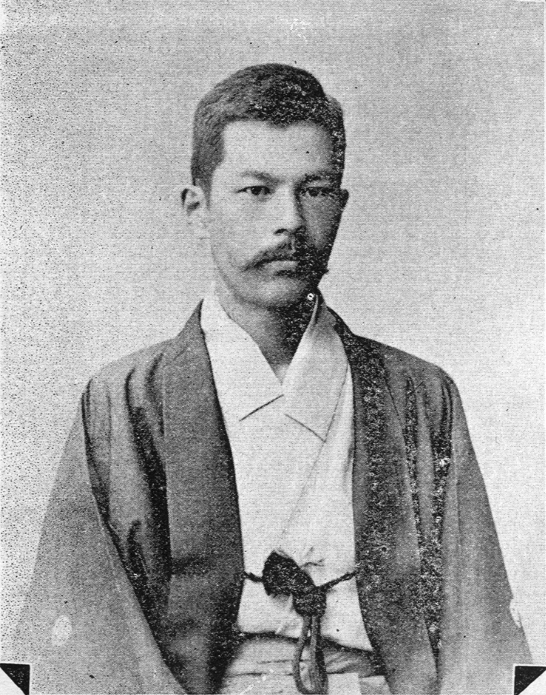 Ichiki Kitokurō